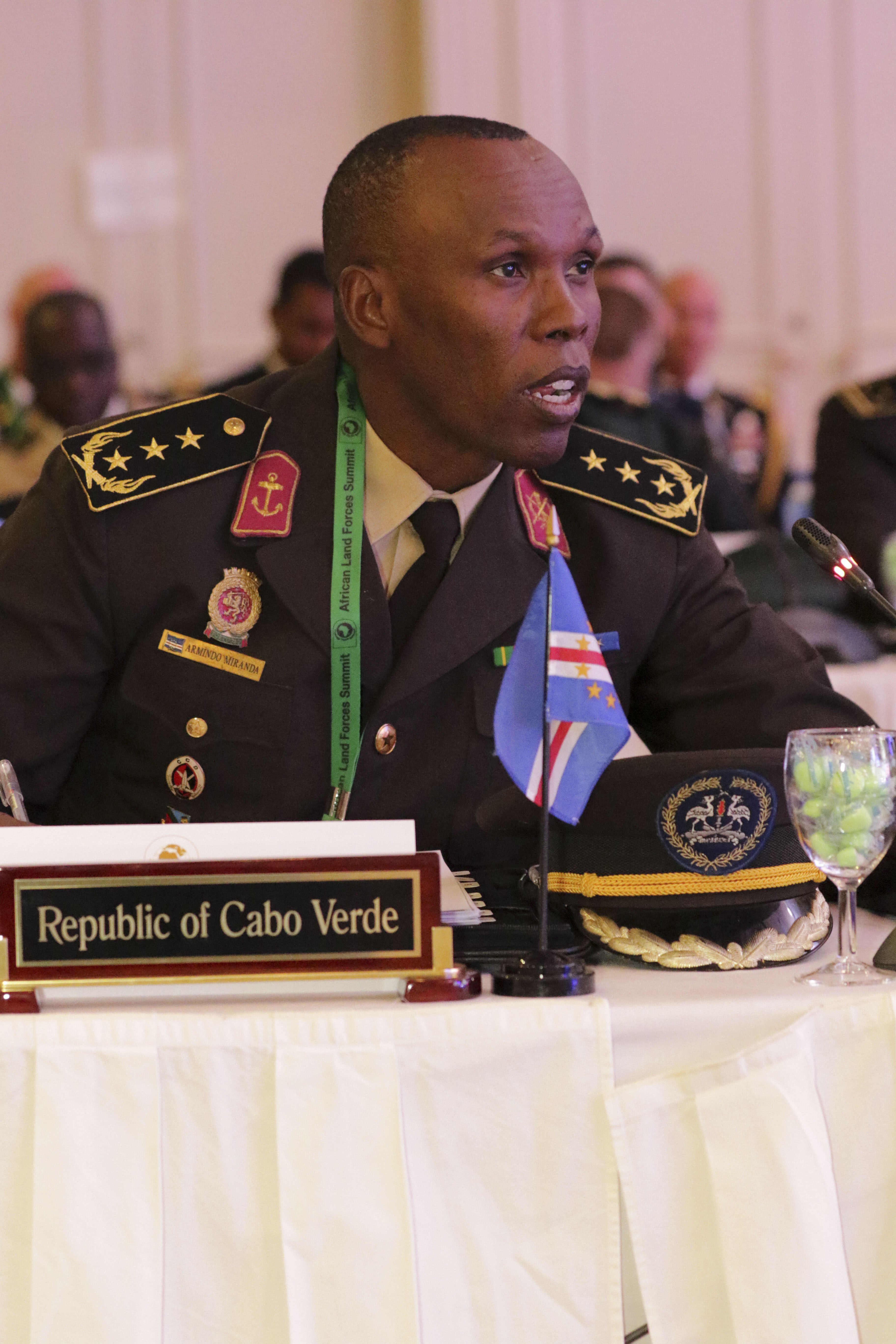 African Land Forces Summit 2019Coronel Armindo Sá Nogueira Miranda